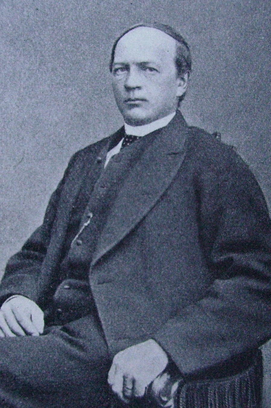 Picture of Anders Persson i Mörarp, Swedish politician